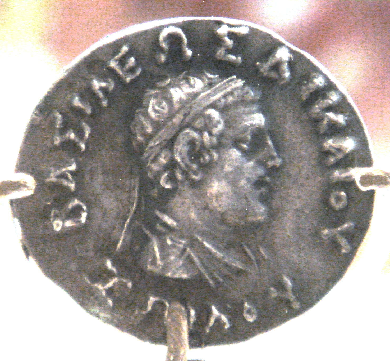 Zoilos_I coin